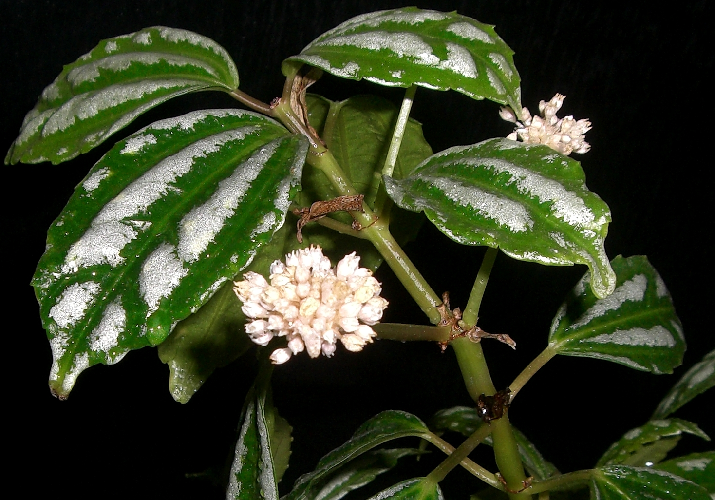 Pilea cadierei (Aluminium plant) flower